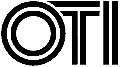 Logo of the Iberoamerican Television Organisation